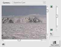 Camera screenshot looking across the Bering Strait